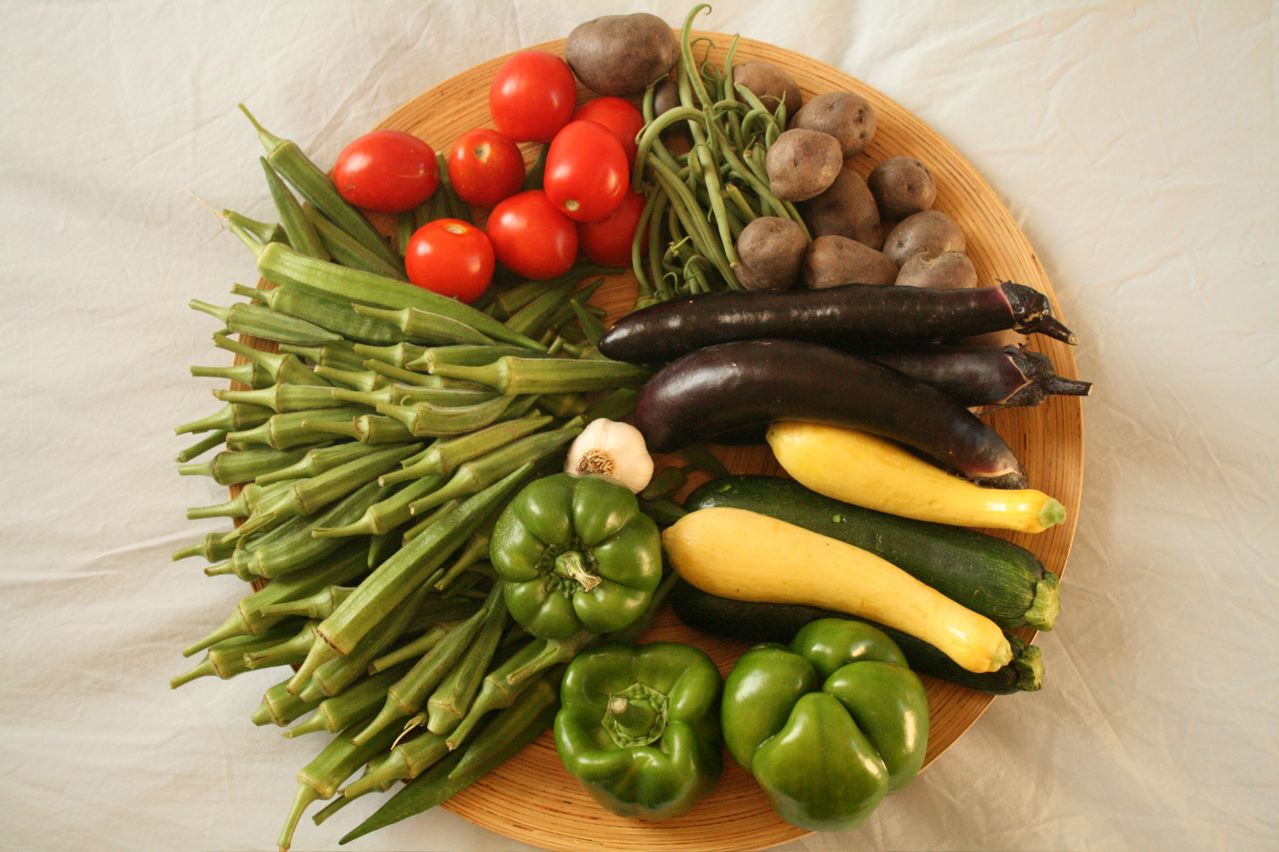 A single week's fruits and vegetables from community-supported agriculture share: peppers, okra, tomatoes, beans, potatoes, garlic, eggplant, squash.